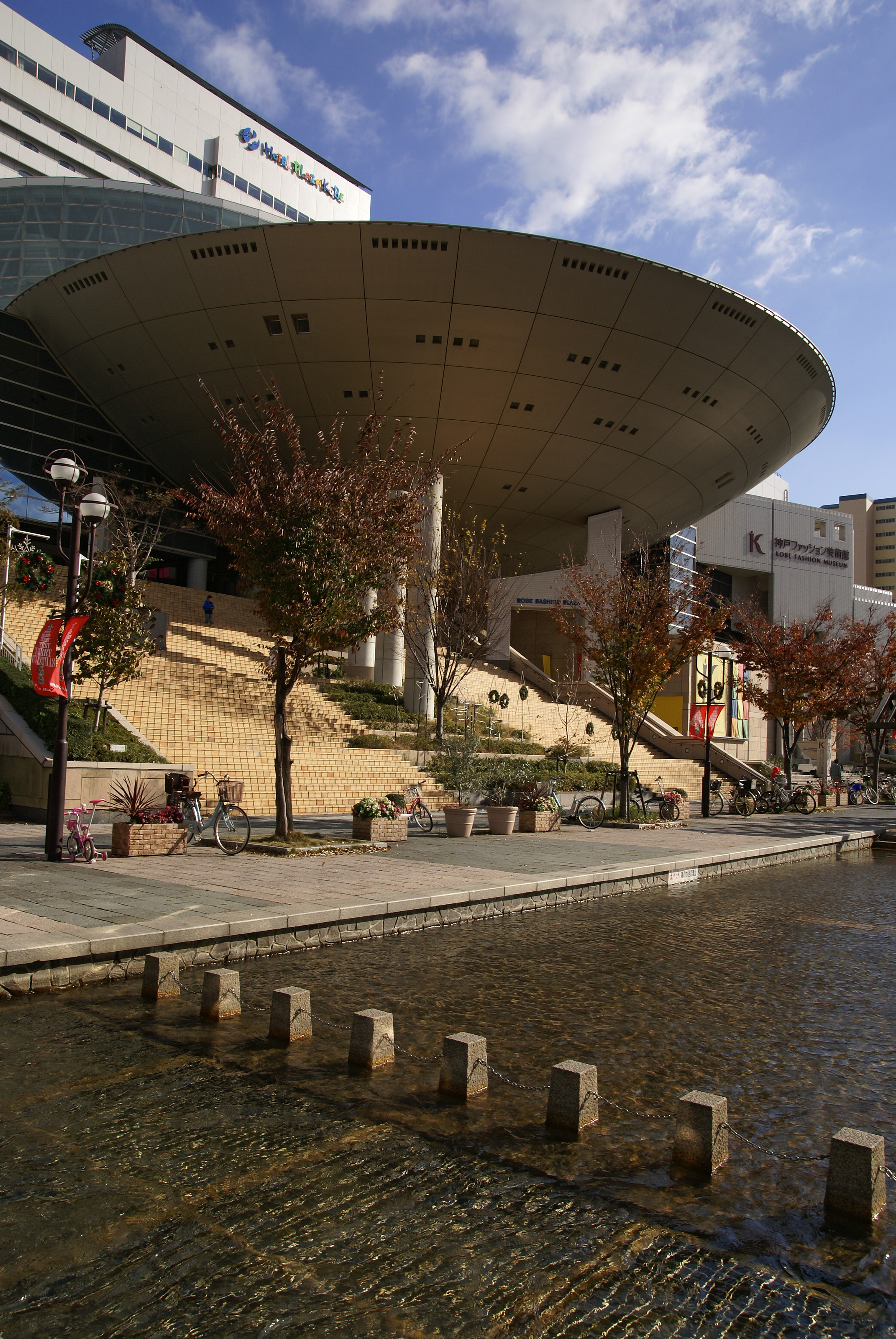 Kobe Fashion Museum in Rokko Island, Kobe, Hyogo, Japan